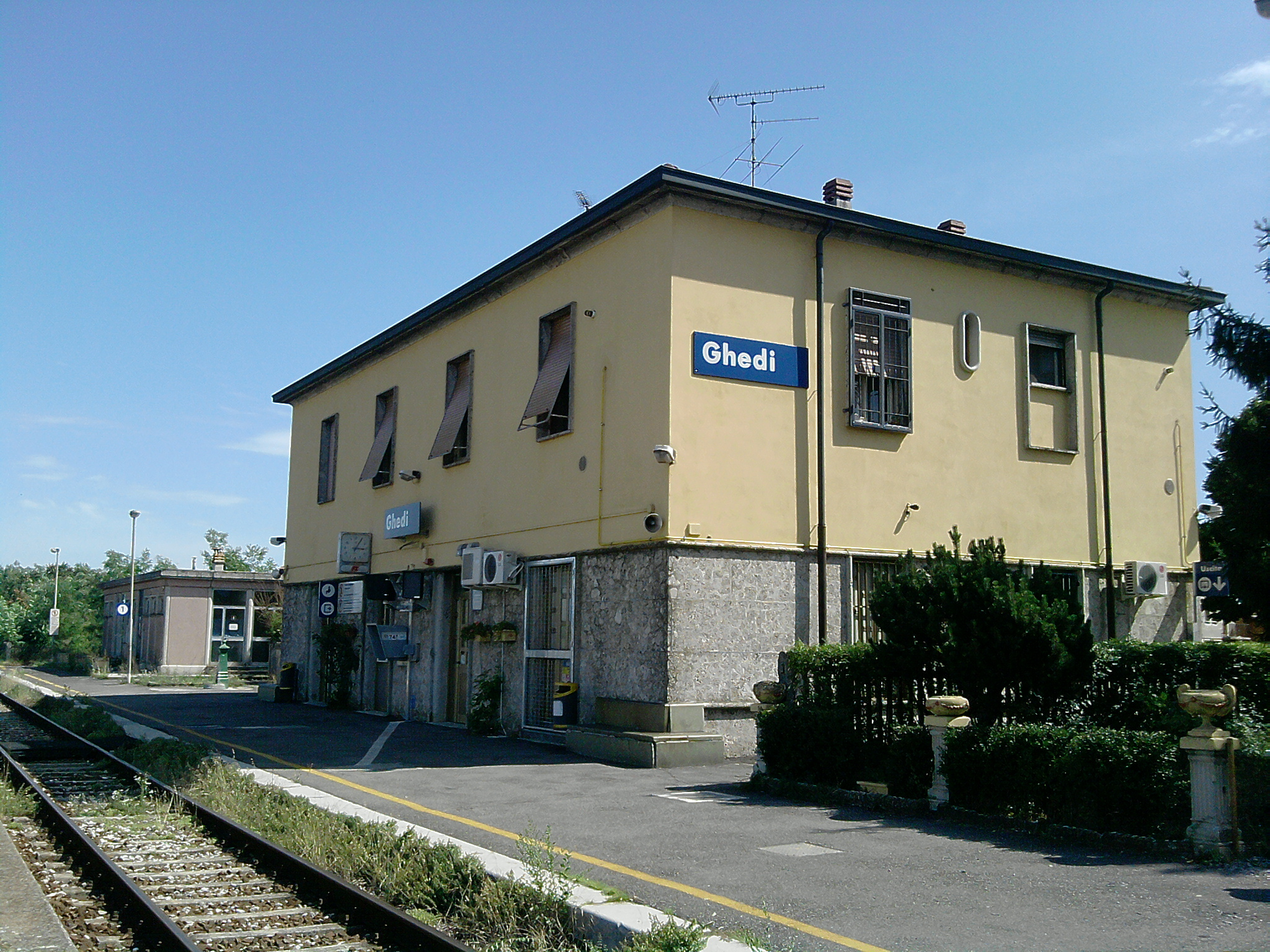 Railroad station of Ghedi